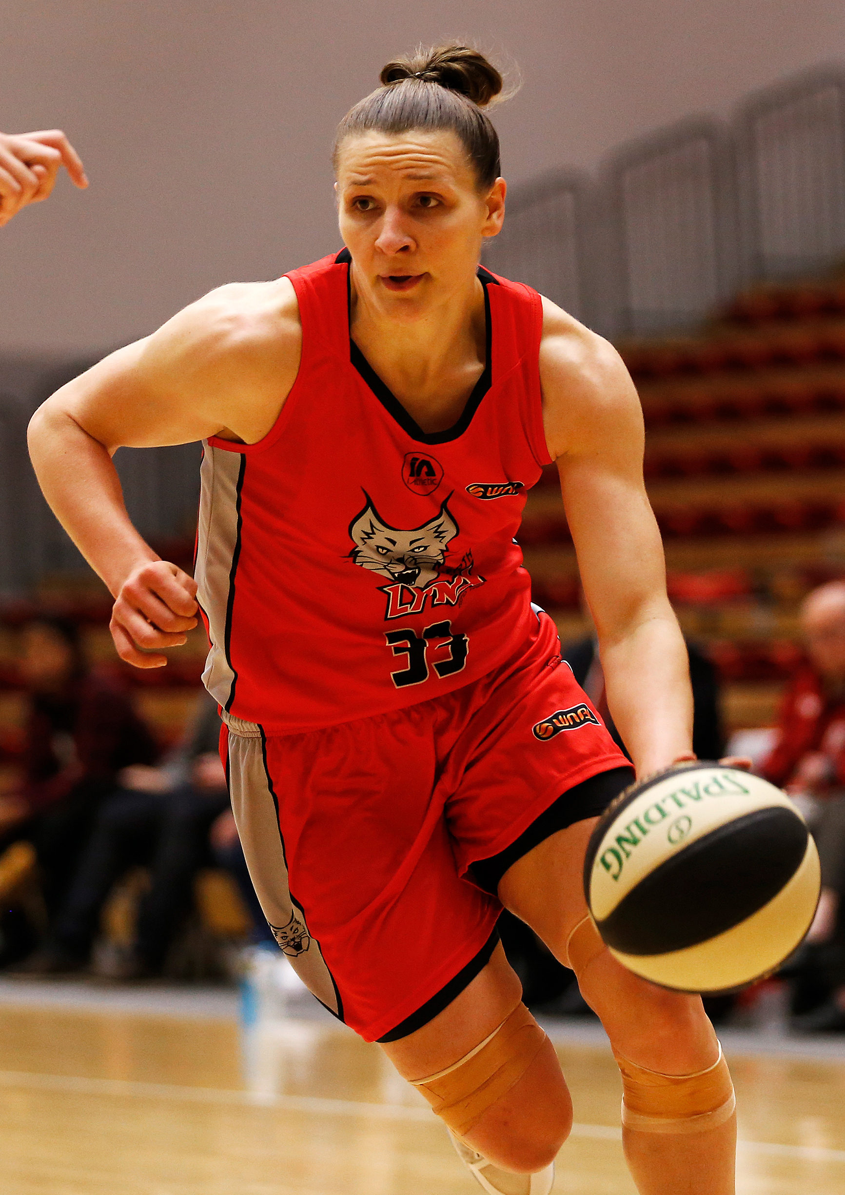 Alison Schwagmeyer in her sole game for the Perth Lynx during the 2017–18 season